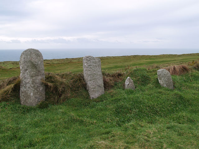 Four Celtic inscribed stones from Beacon Hill cemetery, Lundy. The stones are (from left to right): 1402 POTITI, 1403 IGERNI FILI TIGERNI, 1400 OPTIMI, and 1401 RESTEUTA [1]. ↑ Charles Thomas, And Shall These Mute Stones Speak (Cardiff: University of Wales Press, 1994)